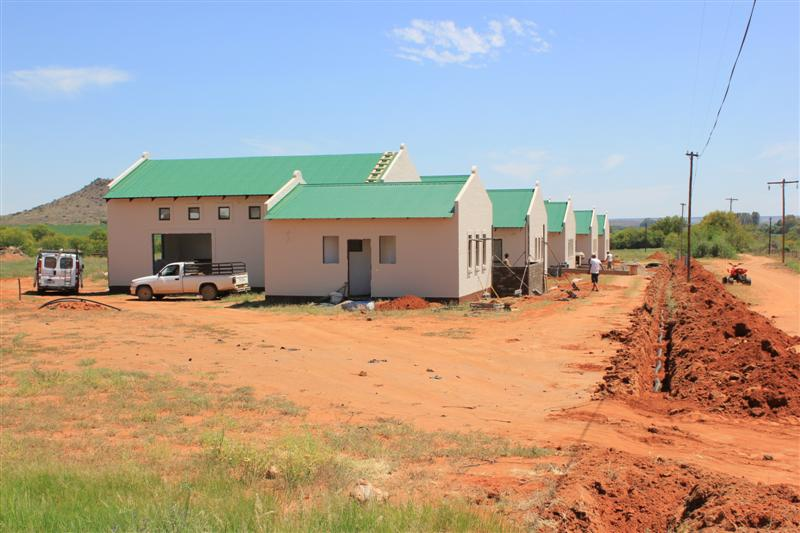 Construction work in Orania.